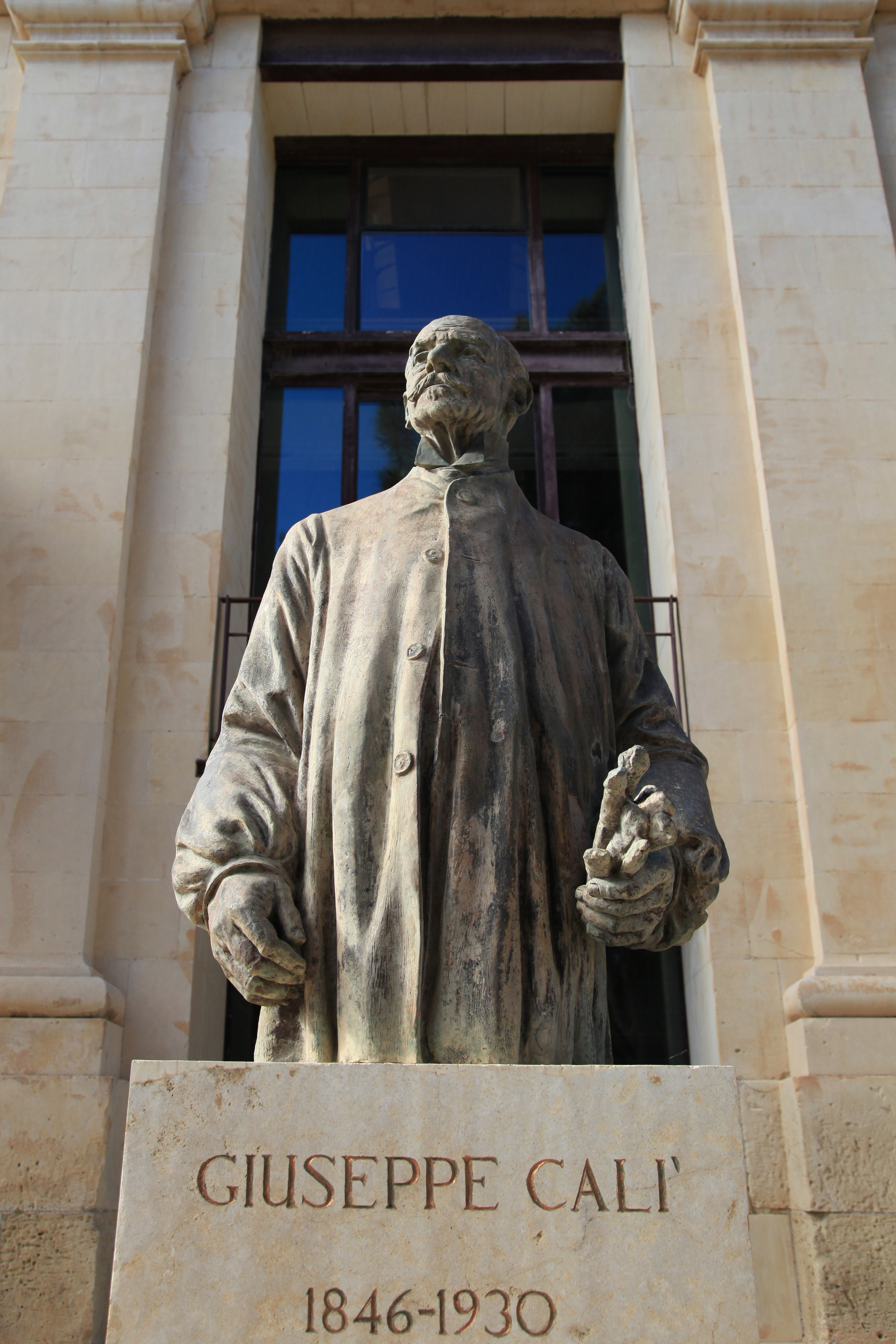 Upper Barrakka Gardens (actually on the area of the Malta Stock Exchange), Pjazza Kastilja in Valletta, Malta